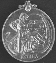 The Korea Medal 1950-1953 reverse